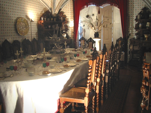 Dining room in the Pena National Palace; Sintra, Portugal